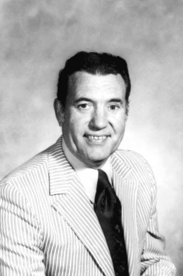 Walter C. Young, Florida State Rep.